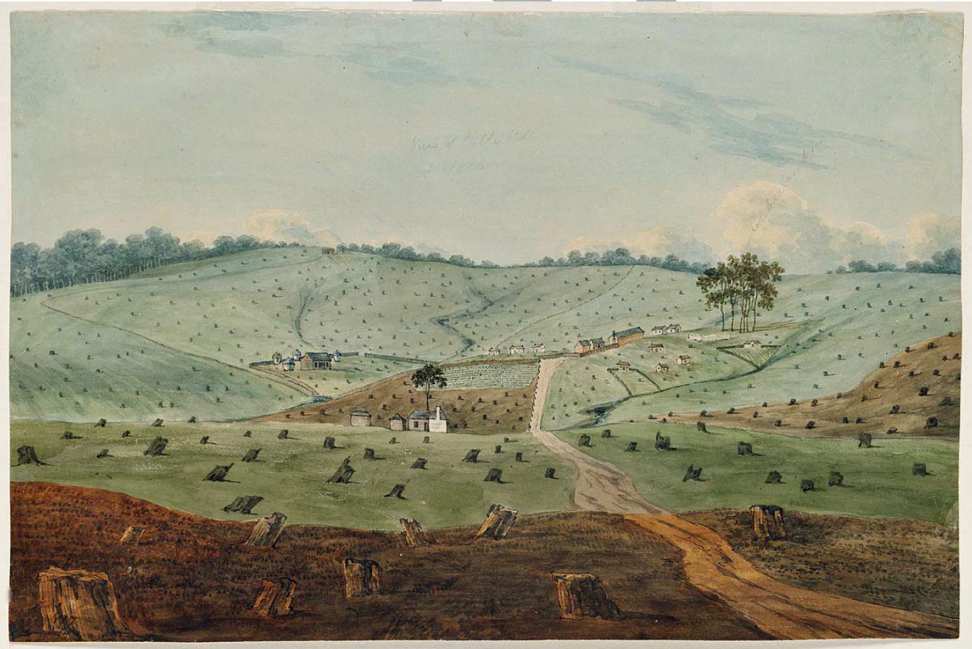 View of Castle Hill Government Farm, c.1806, an unsigned watercolour attributed to John Lewin. (Source Mitchell Library PXD 379-1 F 8.)